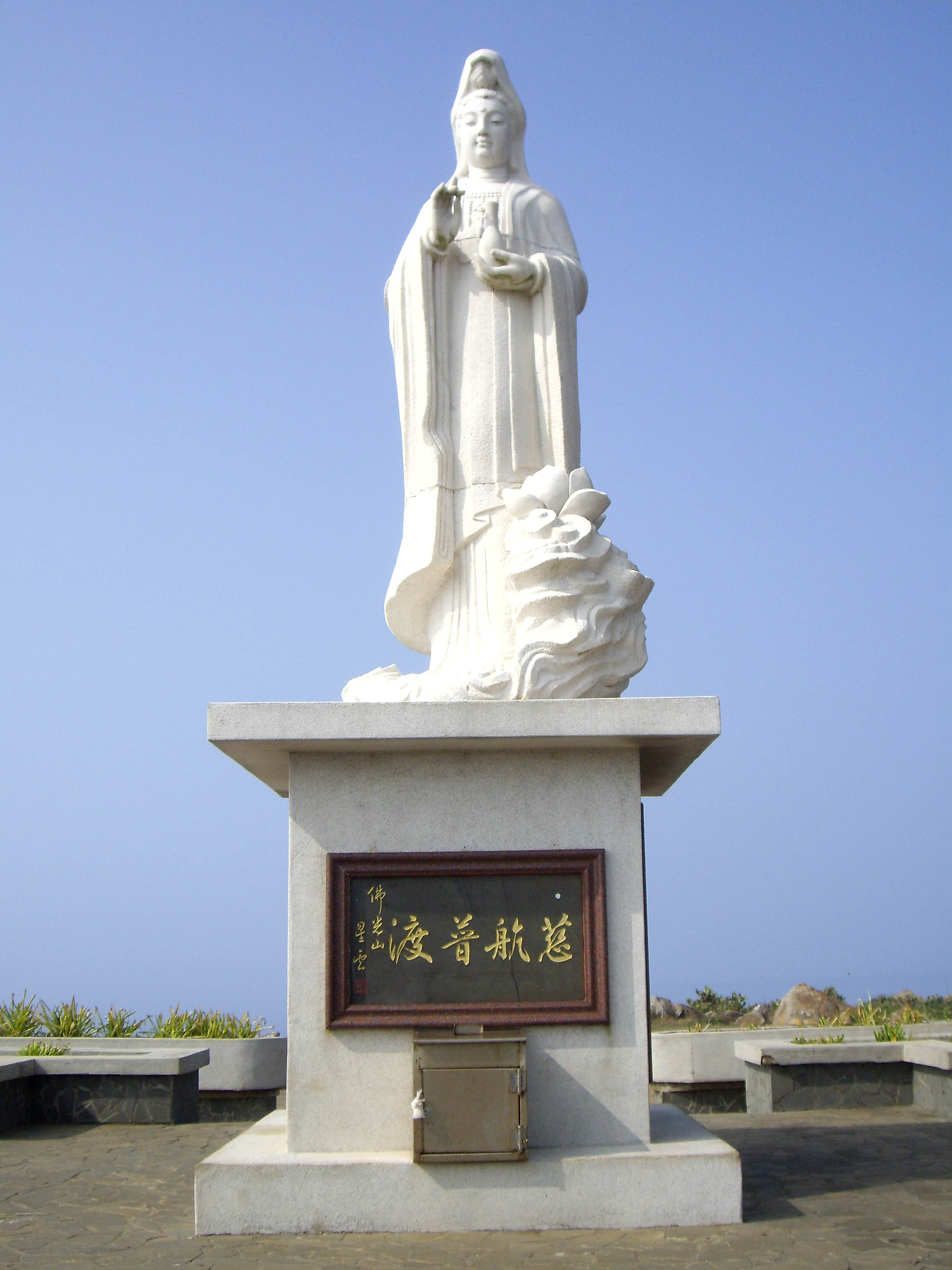 Statue of Guan Yin on Hujing Island in Penghu County,Taiwan